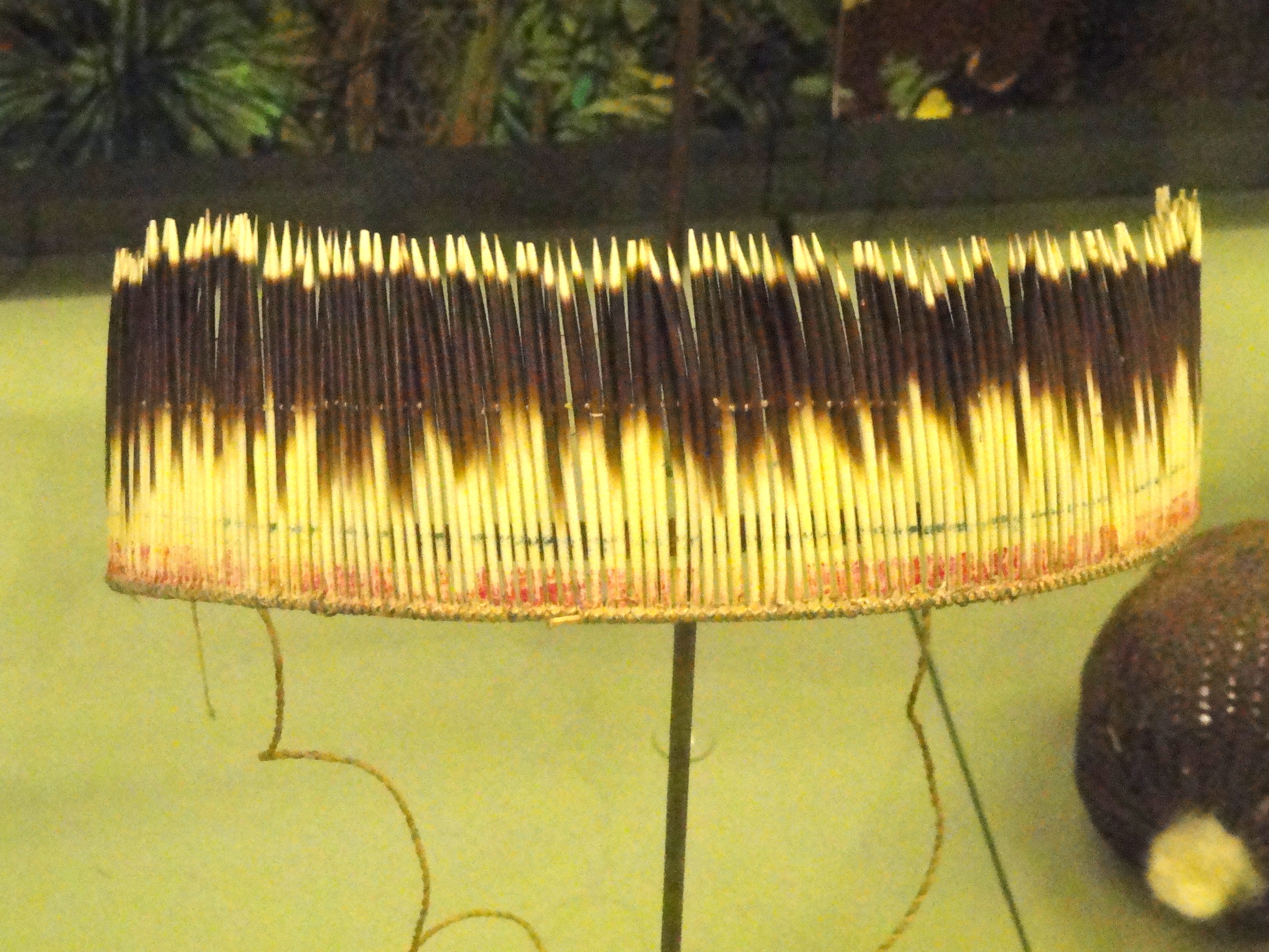 Exhibit in the South American collection of the American Museum of Natural History, Manhattan, New York City, New York, USA.